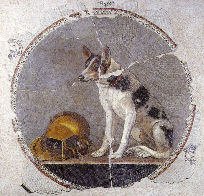 2nd century B.C. mosaic from Alexandria, Egypt of a dog and a pitcher.